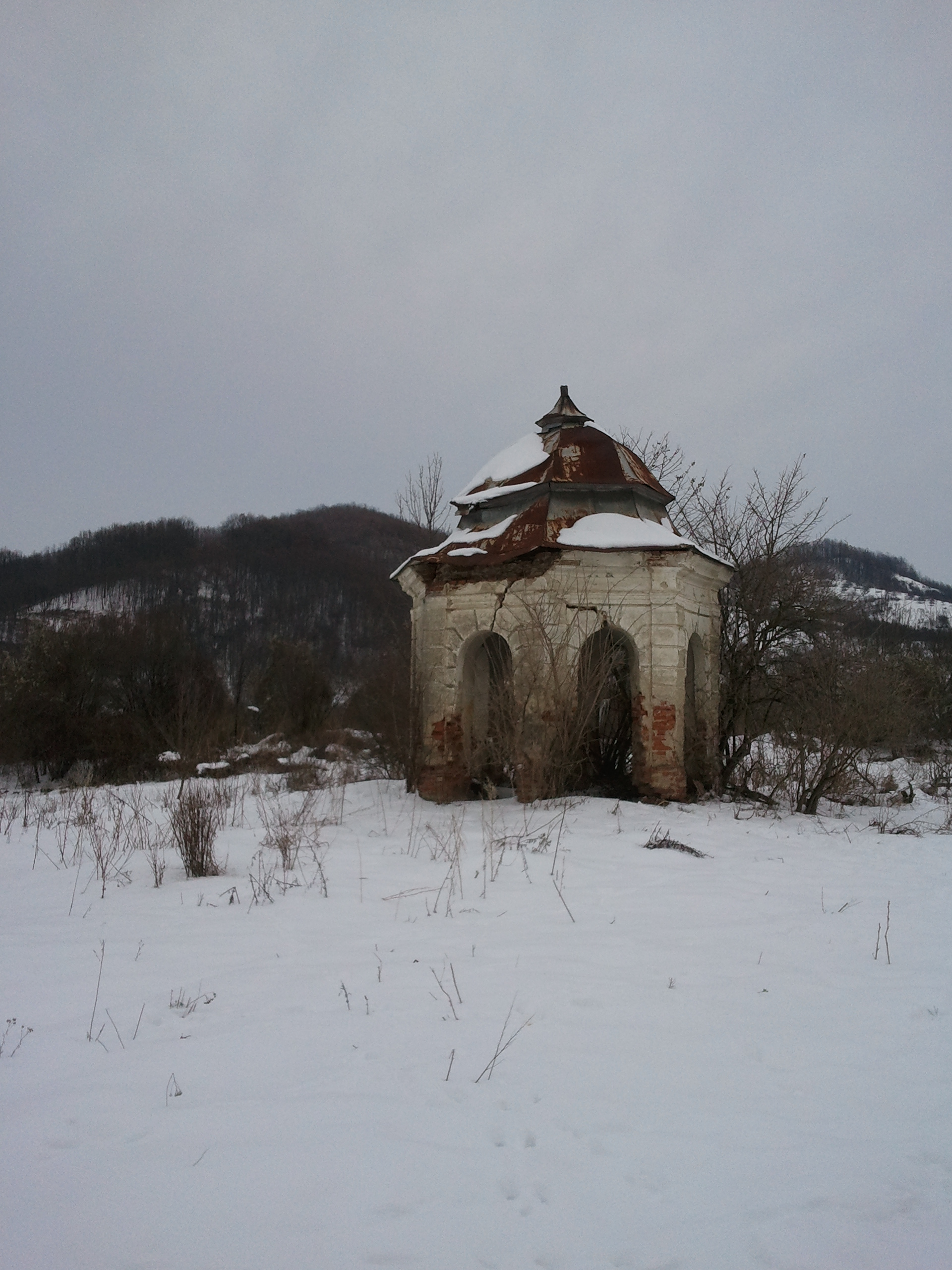 Csákigorbó/Gîrbou castle well